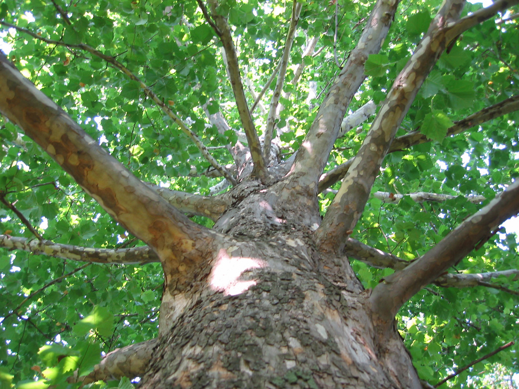 View upwards on an American Sycamore to show its characteristic bark. This one is 30 years old and perhaps as much as 20 meters tall. Picture was taken in Centerville Ohio USA.